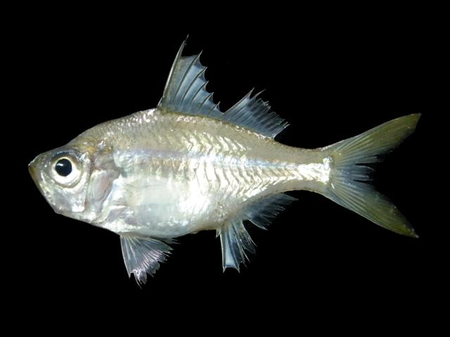 Ambassis interrupta from Kampuan mangrove forest at Amphoe Suksamran, Ranong province, southern Thailand, 2010, 77.7 mm SL.